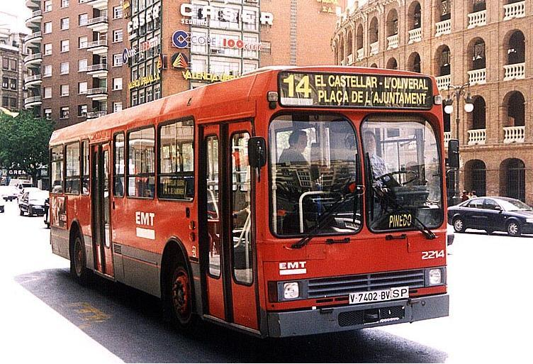 It's Pegaso 6038 bus (#2214) of EMT Valencia company.